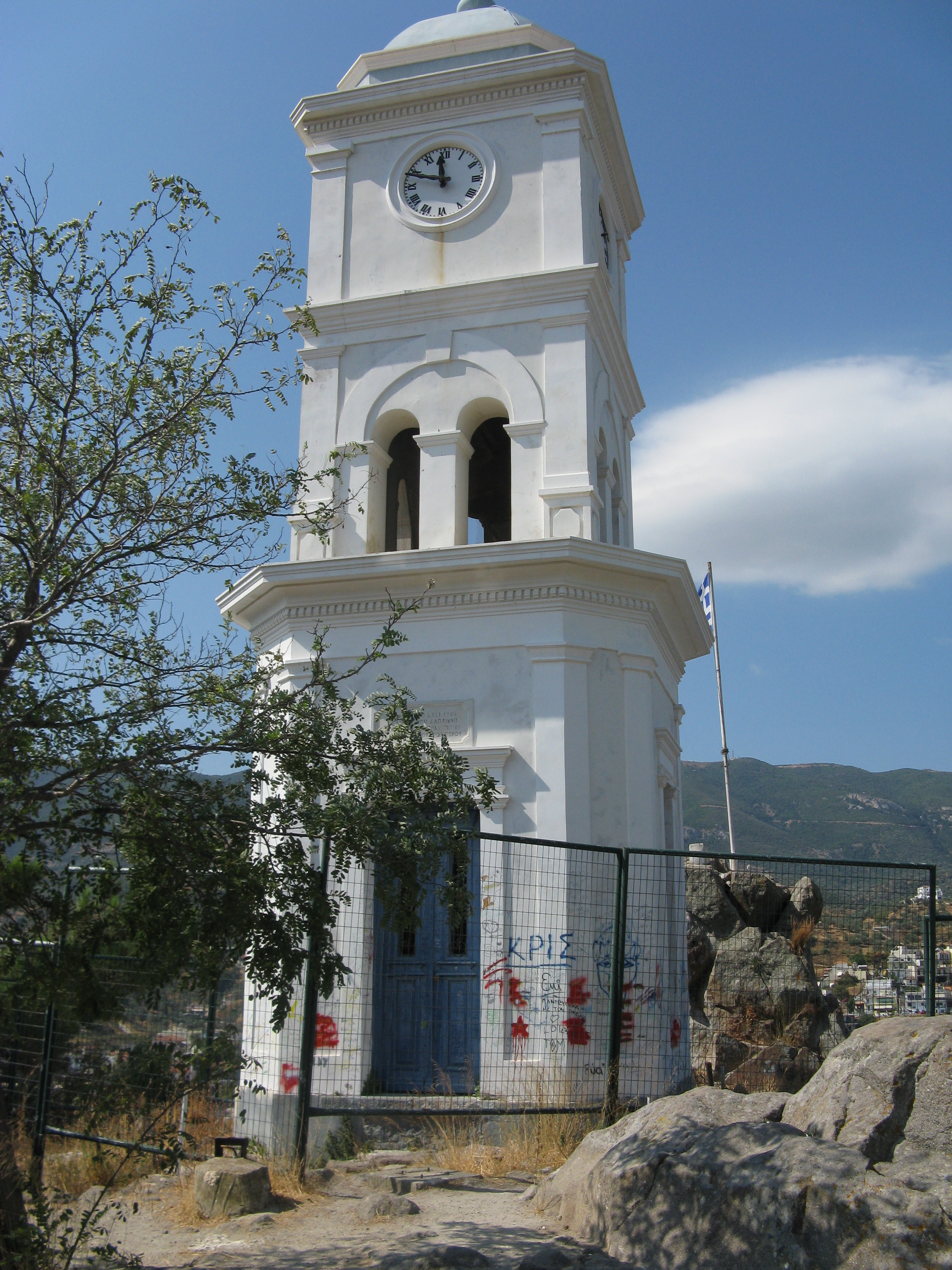 Clock Tower at Poros island, Greece